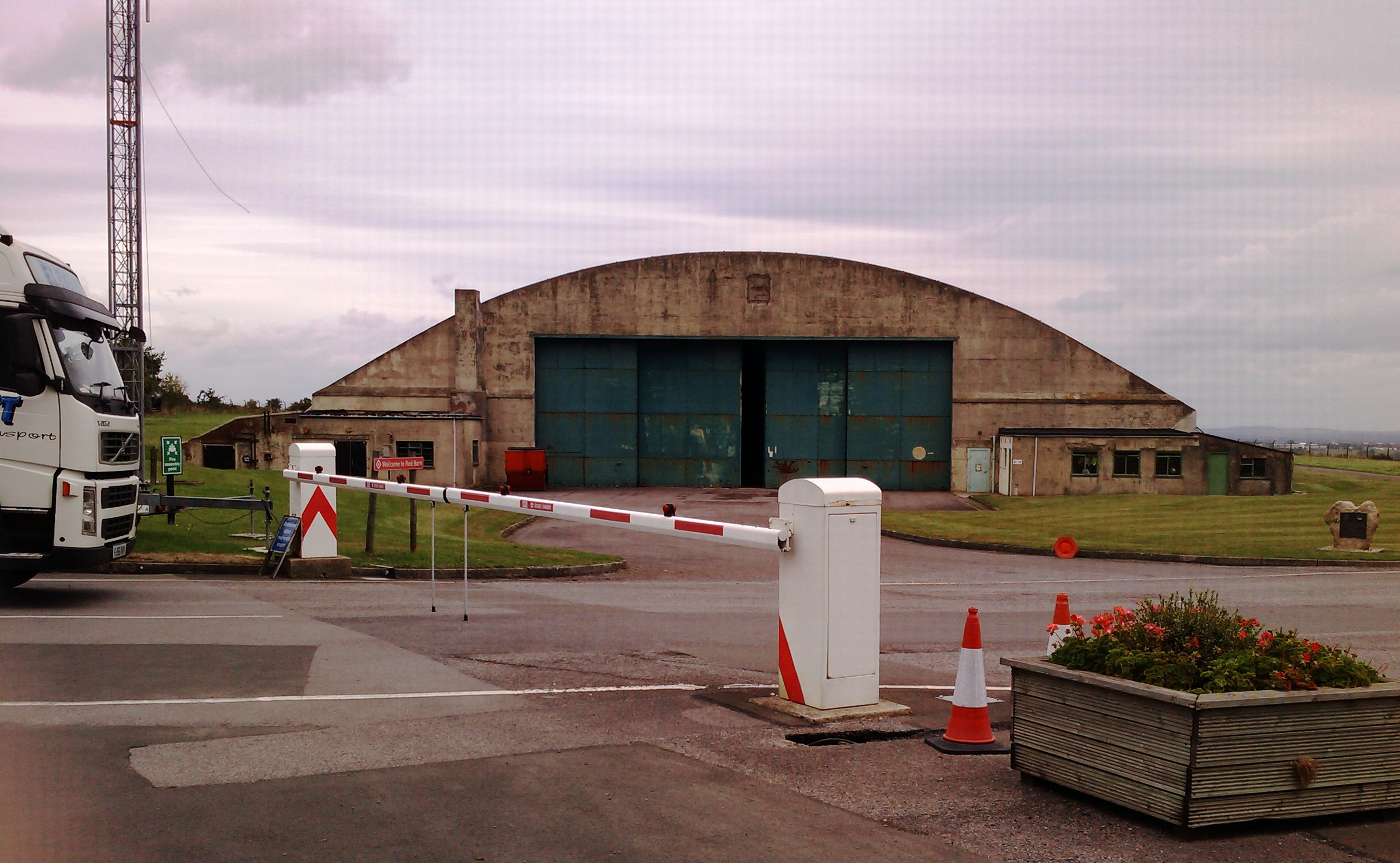 Wroghton science Museum entrance